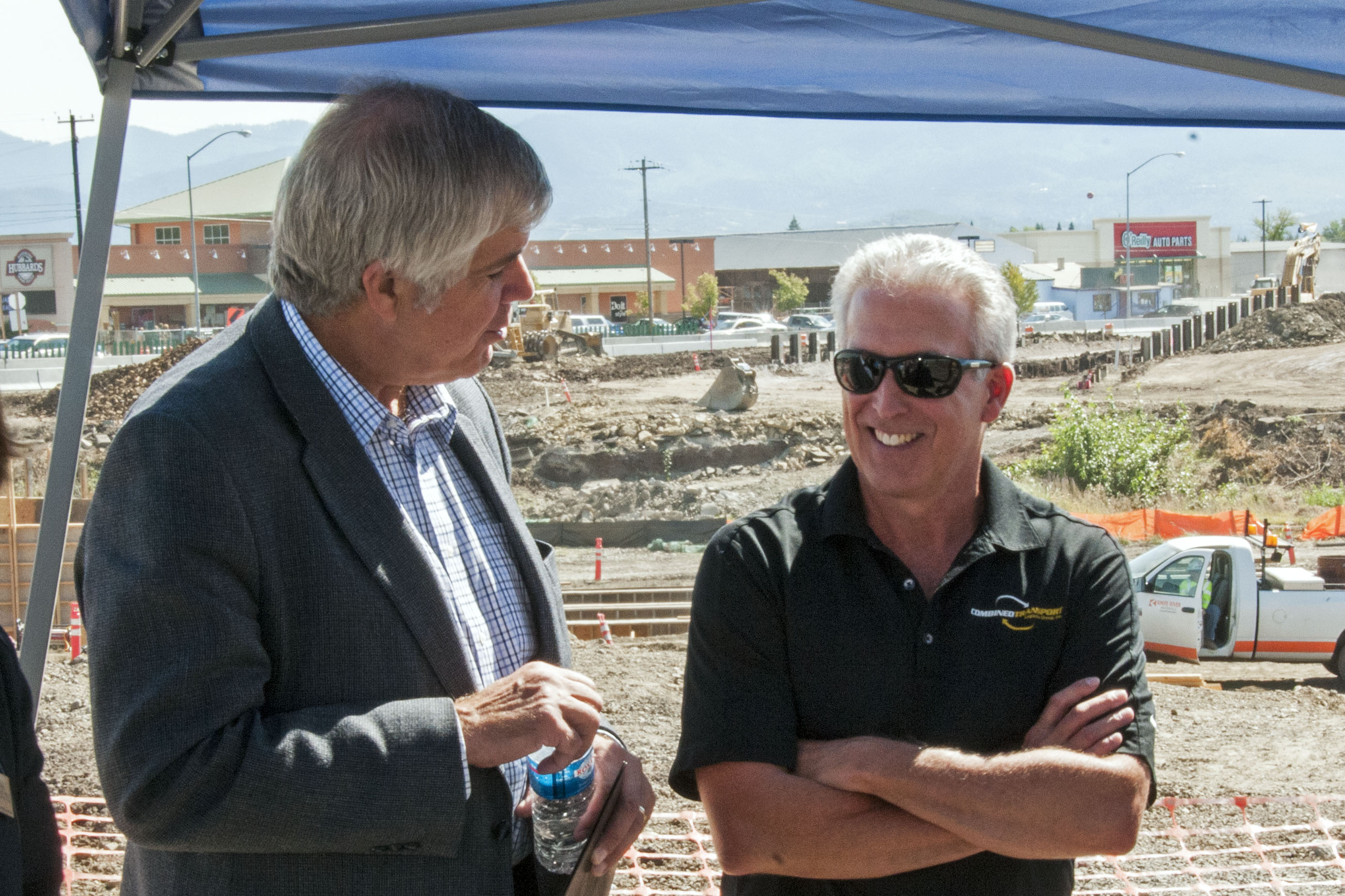 Rep Bentz and Mike Card with Combined Transport talk about OR 62 Expressway